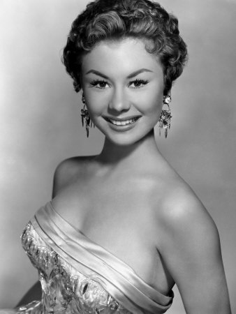 Promotional photograph of actor Mitzi Gaynor (1954)